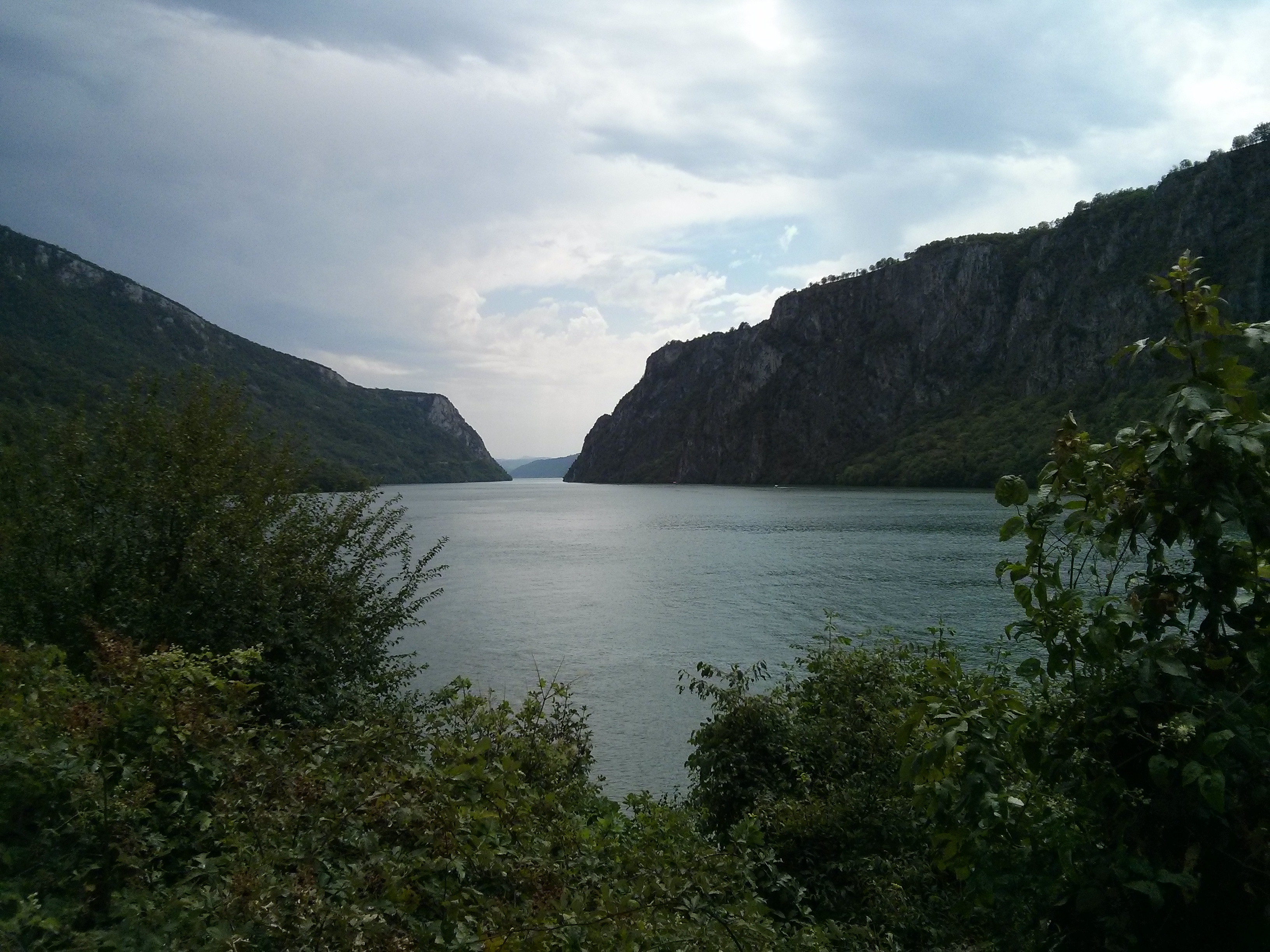 Djerdap, Iron Gate, danube river in Serbia